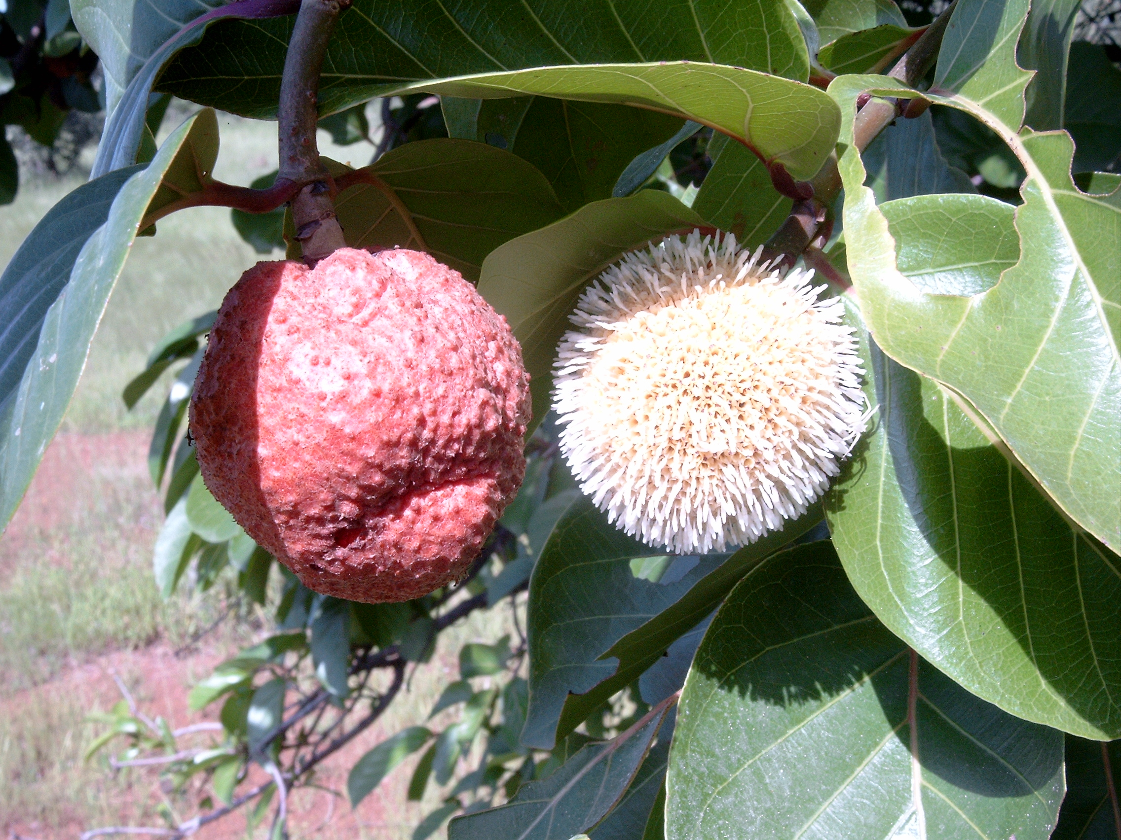 friut and flower of Sarcocephalus latifolius (syn. Nauclea latifolia), SE Burkina Faso